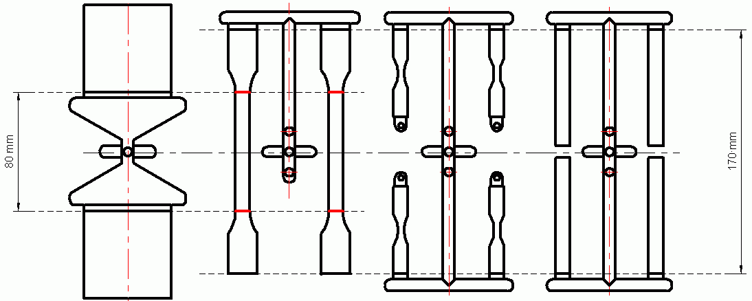 Preferred specimen shape for plastics testing in CAMPUS.